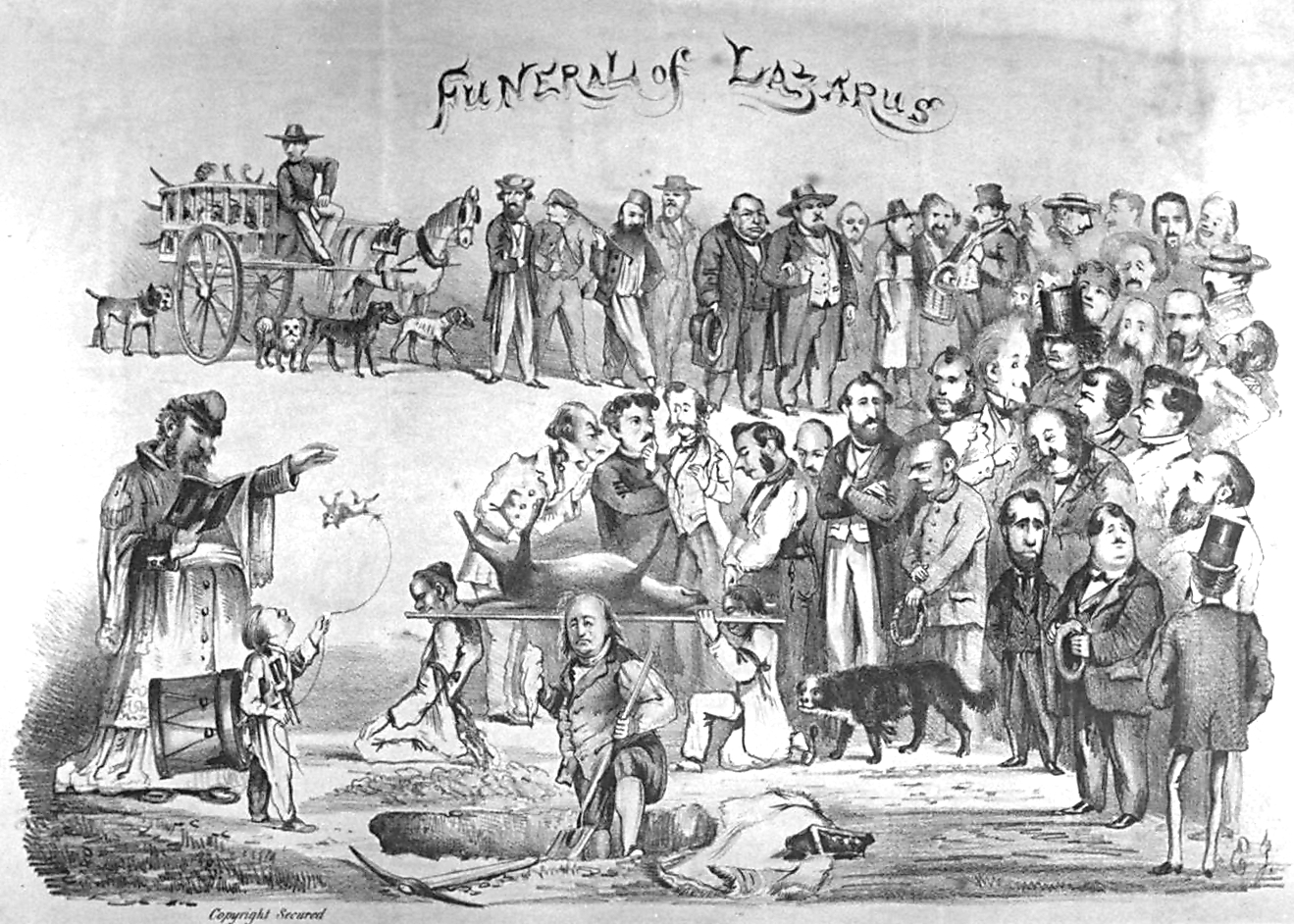 Joshua A. Norton (1819-1880), self-proclaimed Emperor of the United States and Protector of Mexico. Also showing Frederick Coombs aka George Washington II. (digging) It is cartoonist Edward Jump's famous picture, from the Wasp. It was published on the occasion of Lazarus's death (thus either in 1863 or 1880, most likely the former). Further, Edward Jump, the cartoonist, "blew his brains out in a fit of drunken despair" on April 20, 1883 [1].